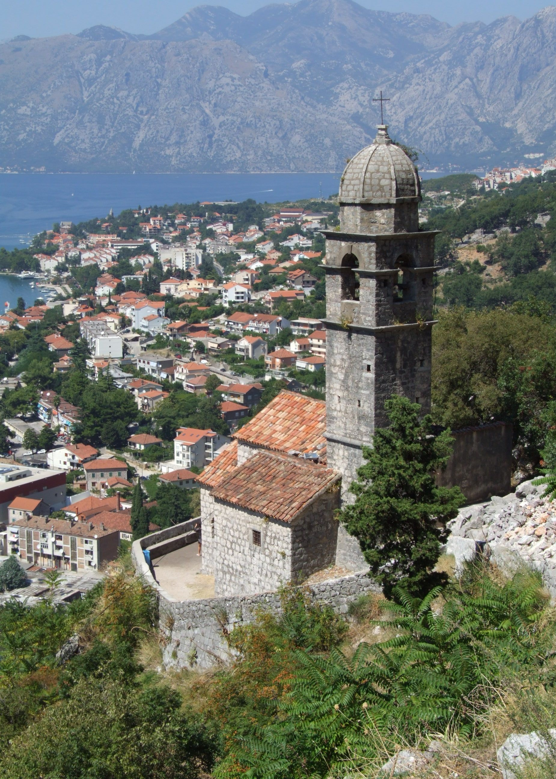 Church (crkva Gospa od Zdravlja), Kotor Srpskohrvatski / српскохрватски: Crkva Gospa od Zdravlja, Kotor